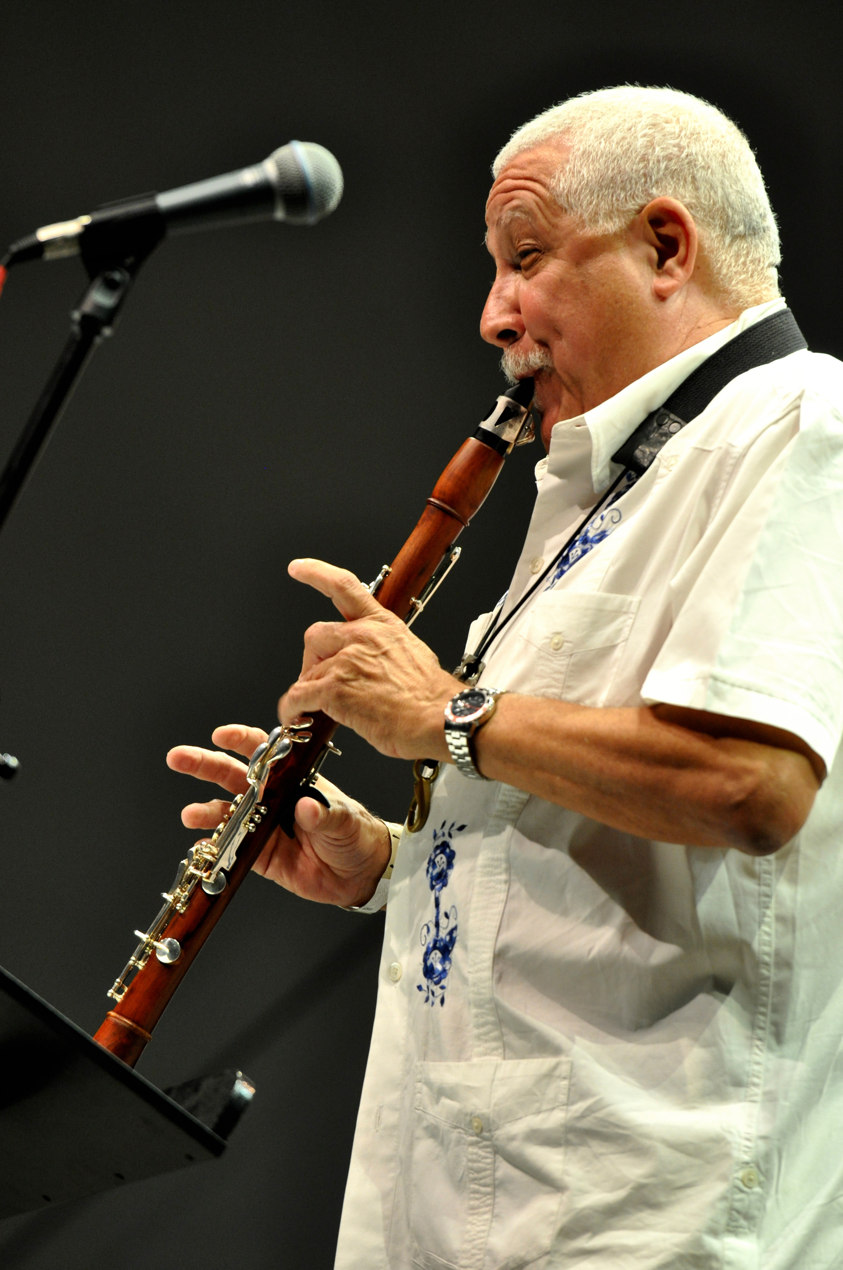 Trio Corrente feat. Paquito D'Rivera (BRA/CUB), World Music Festival Horizonte 2015, Ehrenbreitstein Fortress, Koblenz, Rhineland-Palatinate, Germany Festivalsommer This photo was created with the support of donations to Wikimedia Deutschland in the context of the CPB project "Festival Summer".